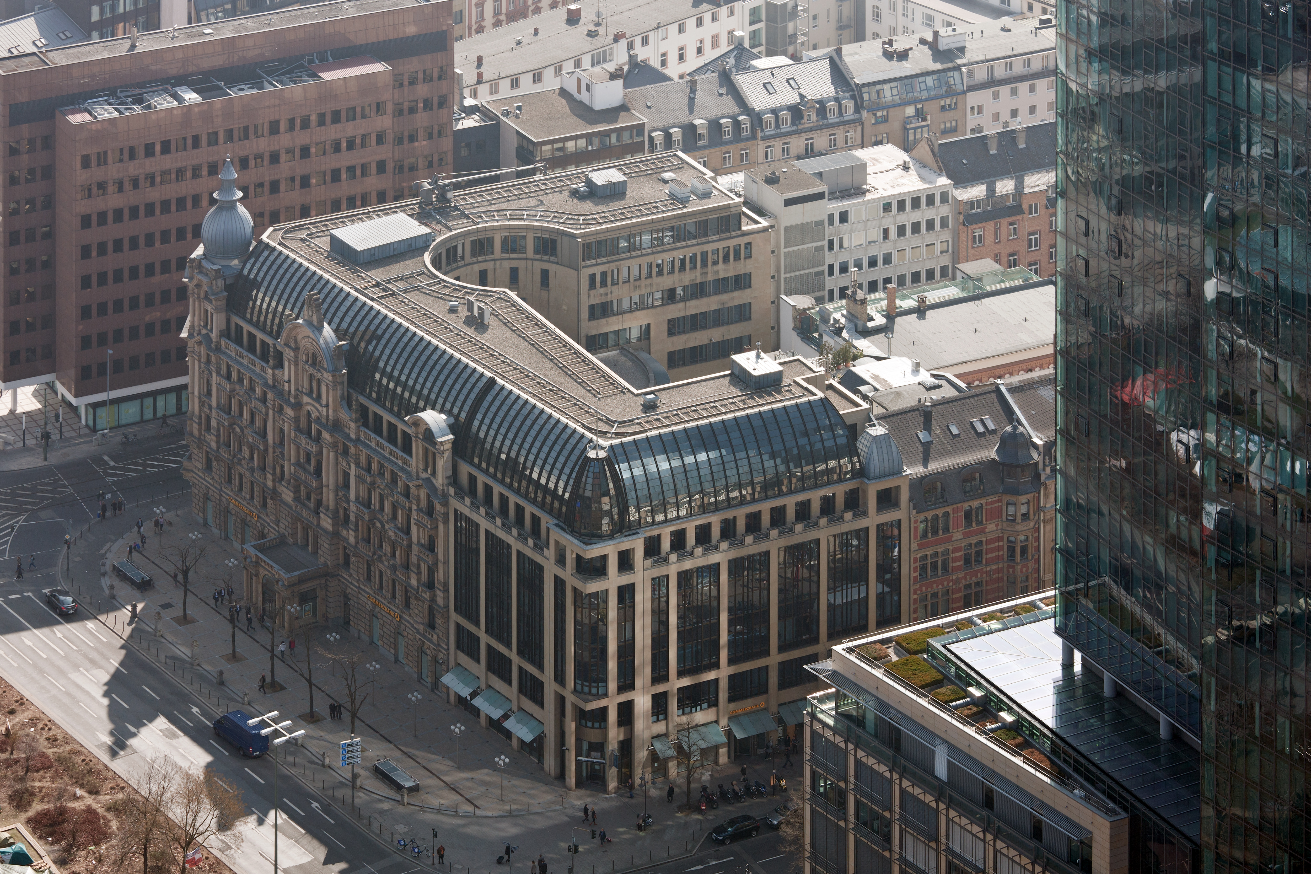 Frankfurt on the Main: Fürstenhof (Ruler's Court) as seen from the Main Tower